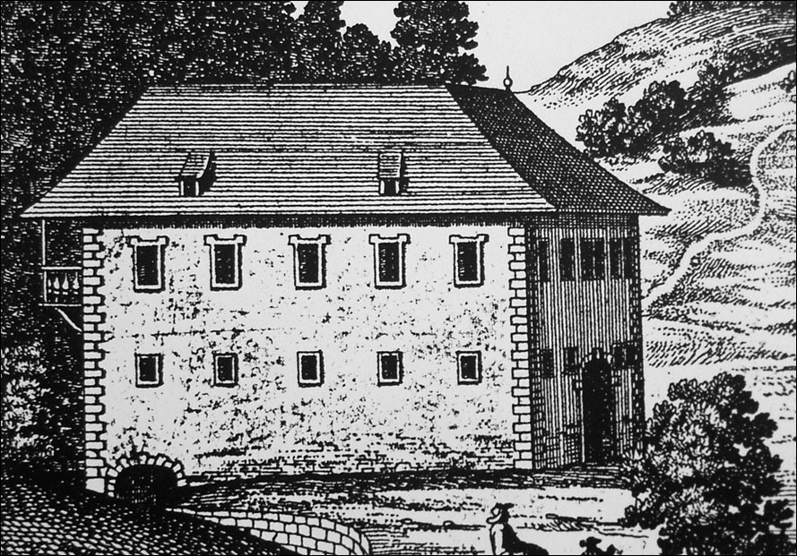 Boštanj Mansion